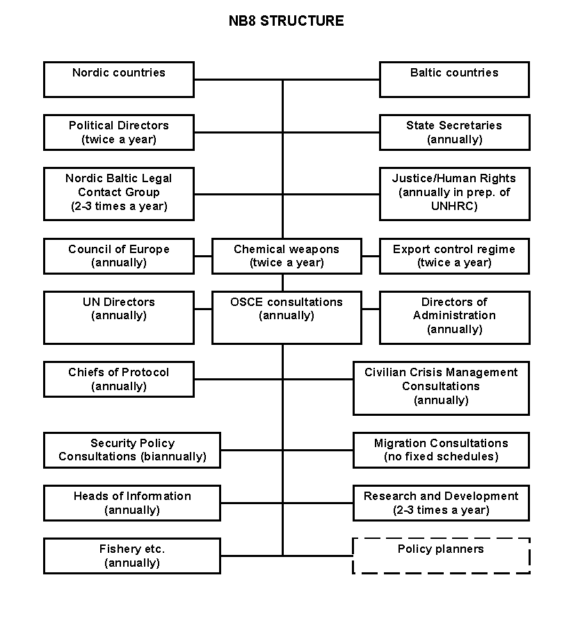 The structure of the cooperation of the NB8 (Nord Baltic Eight)